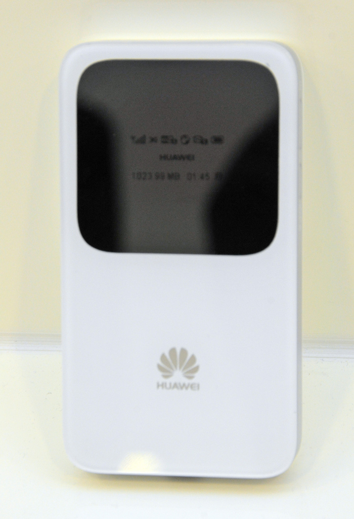 Huawei E586 mobile Wi-Fi device